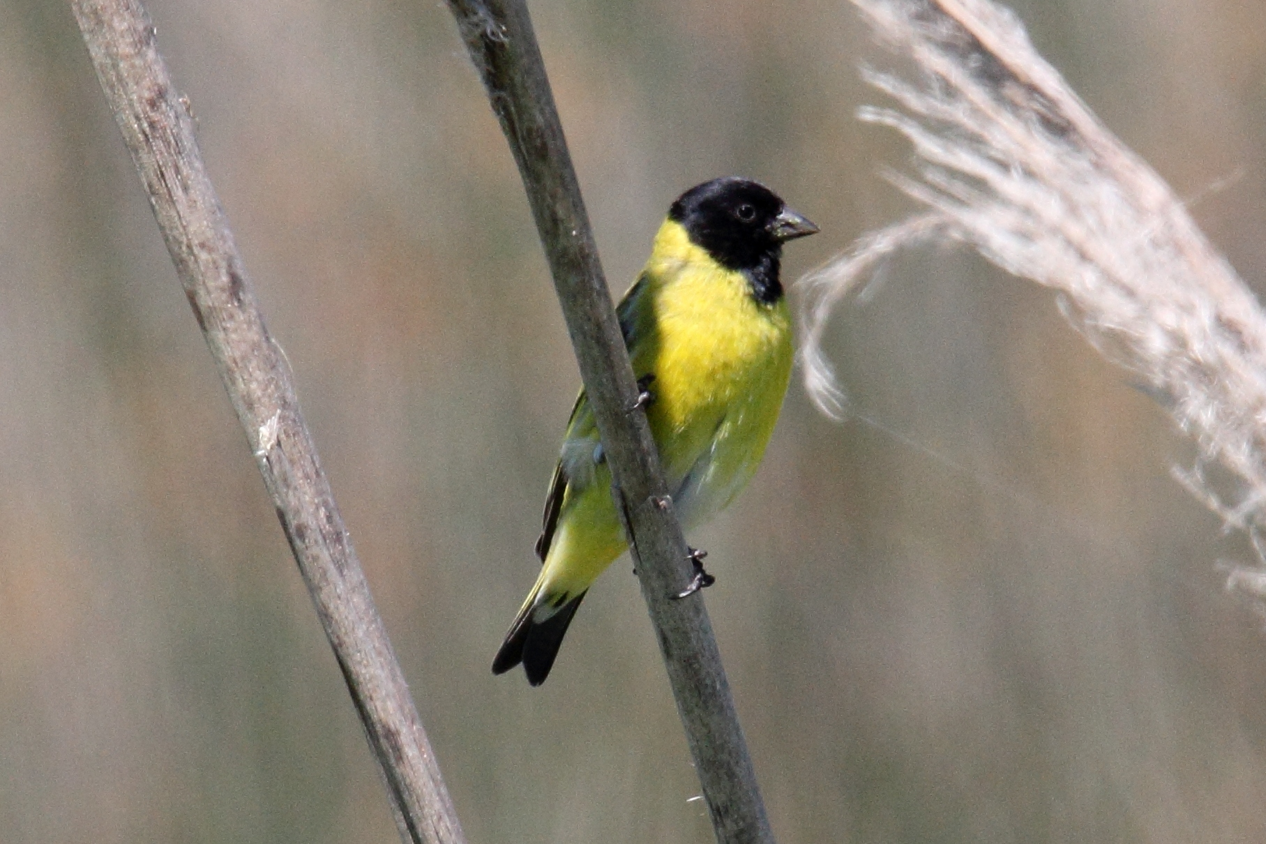 Hooded Siskin (Spinus magellanica)